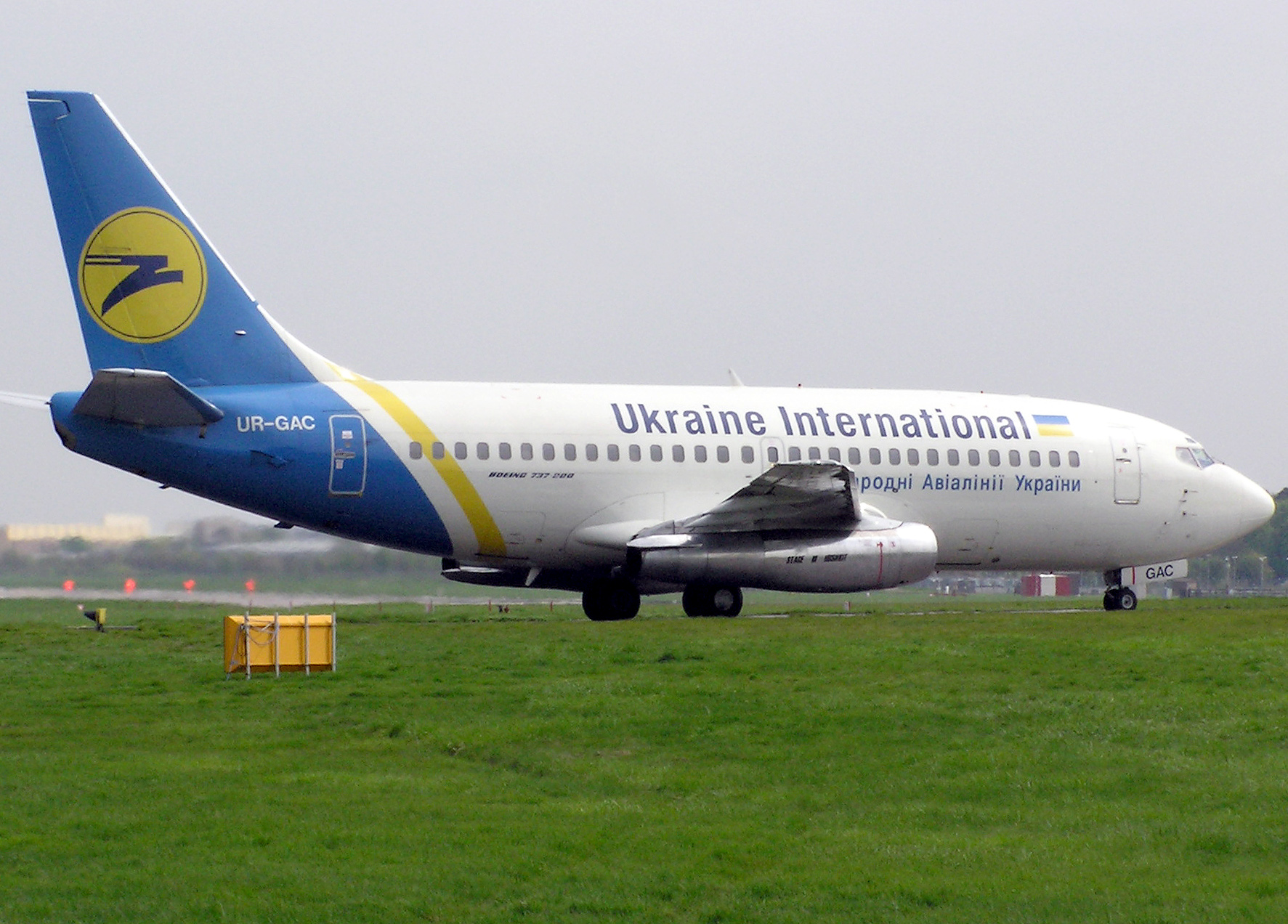 Ukraine International Airlines Boeing 737-247(A) (registration UR-GAC) at London Gatwick Airport, England. This aircraft has now been sold to another airline. Photographed by Adrian Pingstone in April 2004 and released to the public domain.